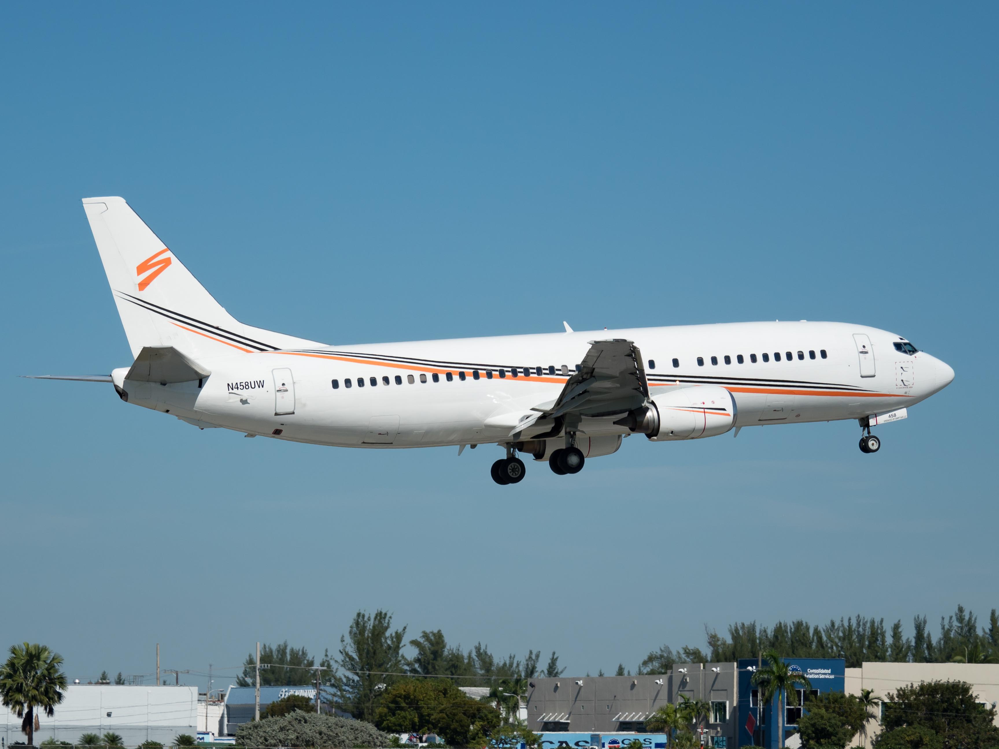 Swift Air Boeing 737-400 at Miami International Airport